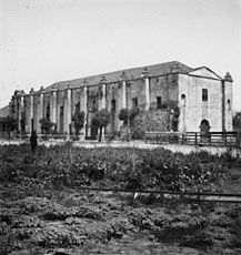 Mission San Gabriel Archangels in San Gabriel, California around 1900